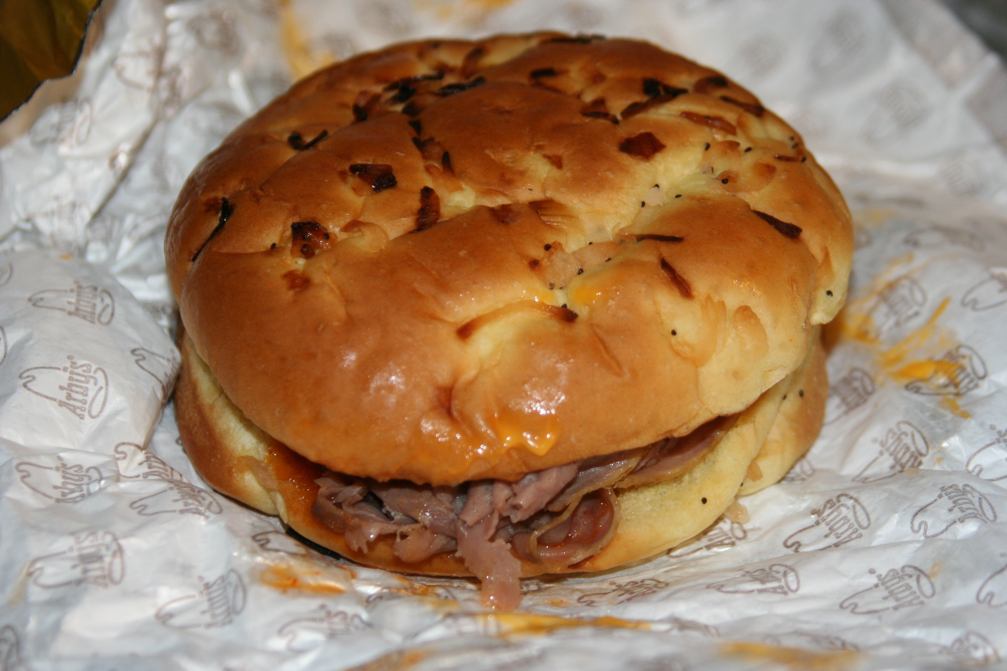 Arby's Melt on onion bun add red ranch & 1 oz added totaling 3 oz of beef. typically the beef n' cheddar sandwich. (roast beef), 2009.